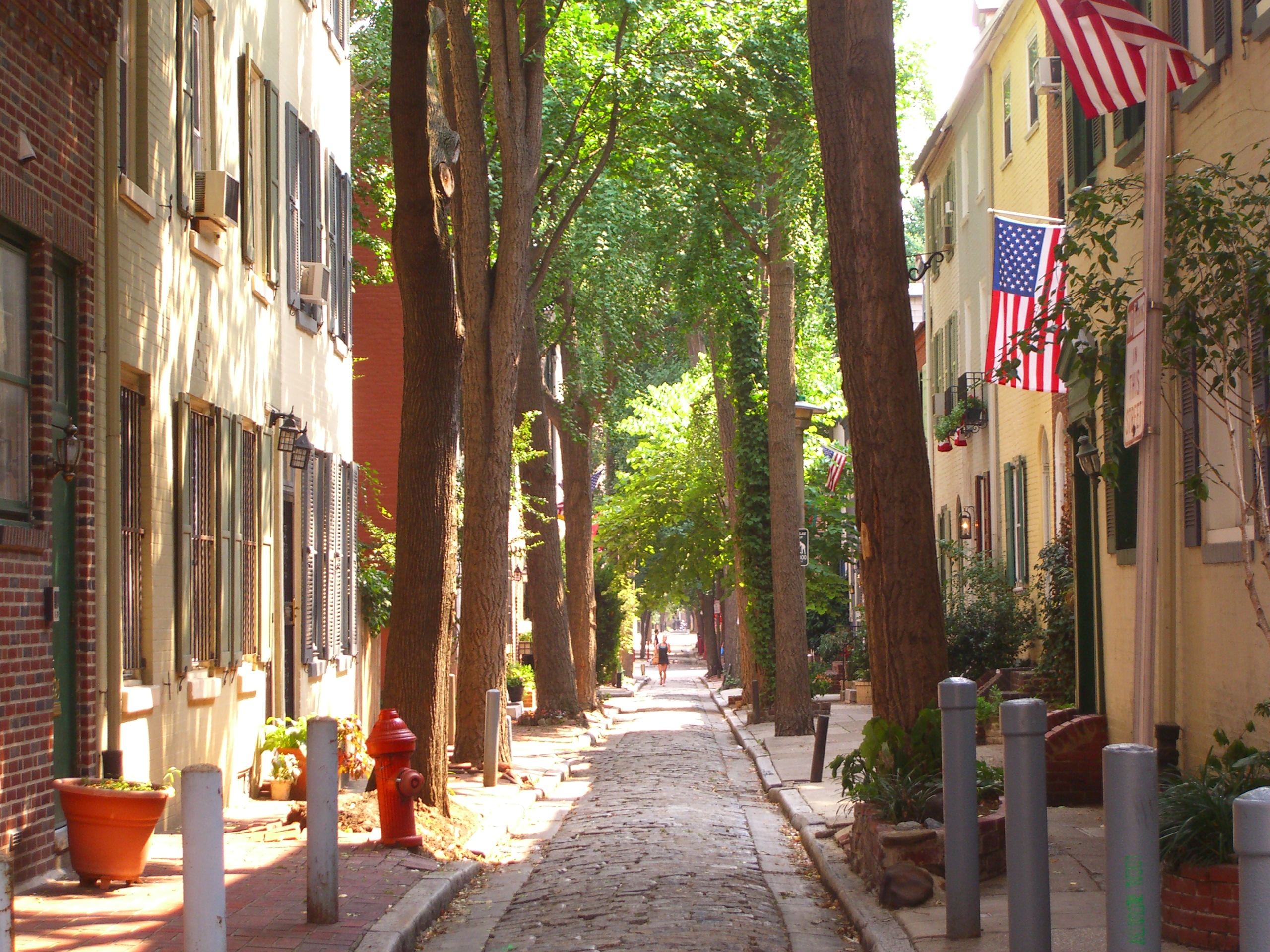 A sunny street in Philadelphia